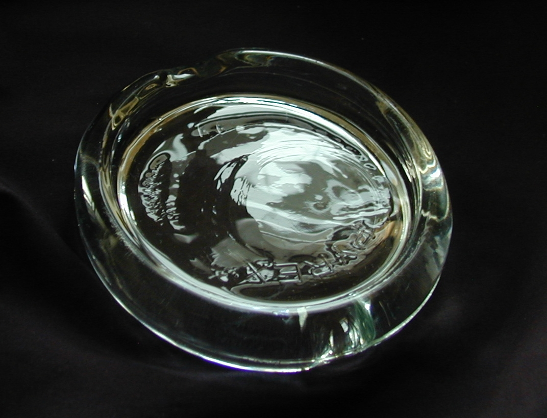 A gadget attached to a pot in which milk is boiled and which gives a signal when the milk is too hot and can be overcooked. Made from glass.